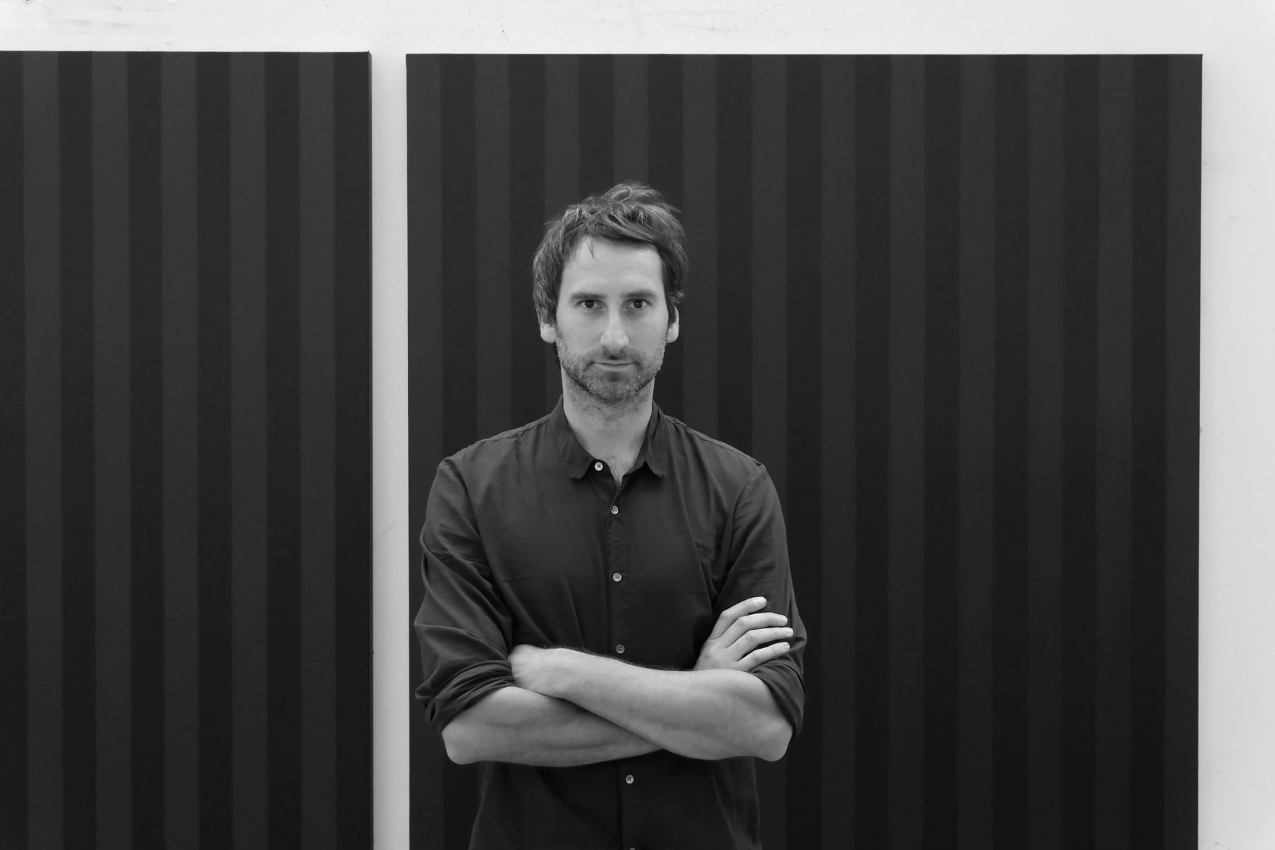 Idris Khan "Self Portrait in the studio". Copyright Idris Khan. Original photography by Idris Khan.